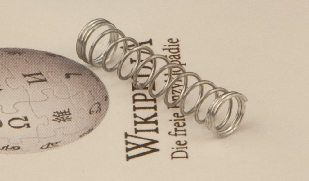 Helical compression spring with Deutschsprachige Wikipedia logo. A rotated and cropped version of File:20150223 1936 WMAT Spring 0965.jpg.